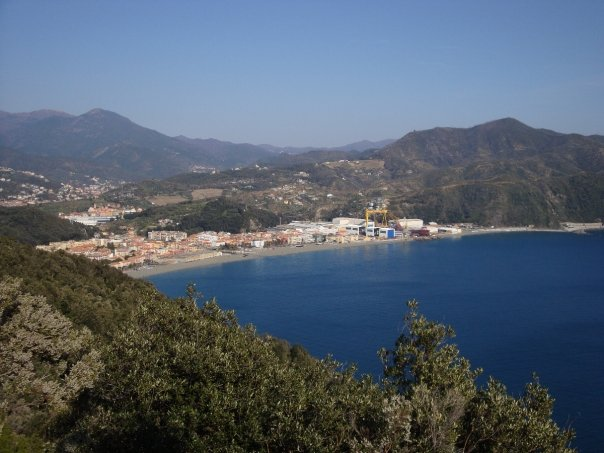 Riva Trigoso vista da Punta Manara